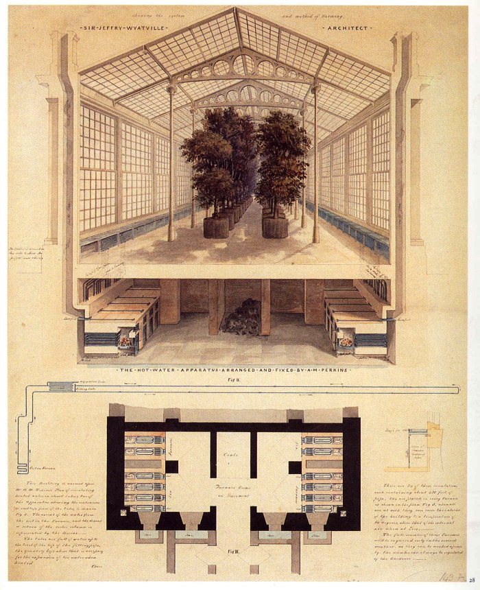 "The hot water apperatus arranged and fixed by A M Perkins" The Architectural Conservatory at Kew Gardens by John Nash Renovated by Jeffrey Wyatville 1836 using A M Perkins’ high-pressure hot water boiler